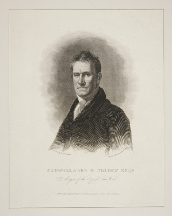 Line engraving of "Cadwallader D. Colden, Esq., Mayor of the City of New York," by an unknown artist, after the work of William Jewett and Samuel Lovett Waldo. 14 15/16 in. x 11 7/16 in. Mabel Brady Garvan Collection, Yale University Art Gallery, Yale University, New Haven, Conn.